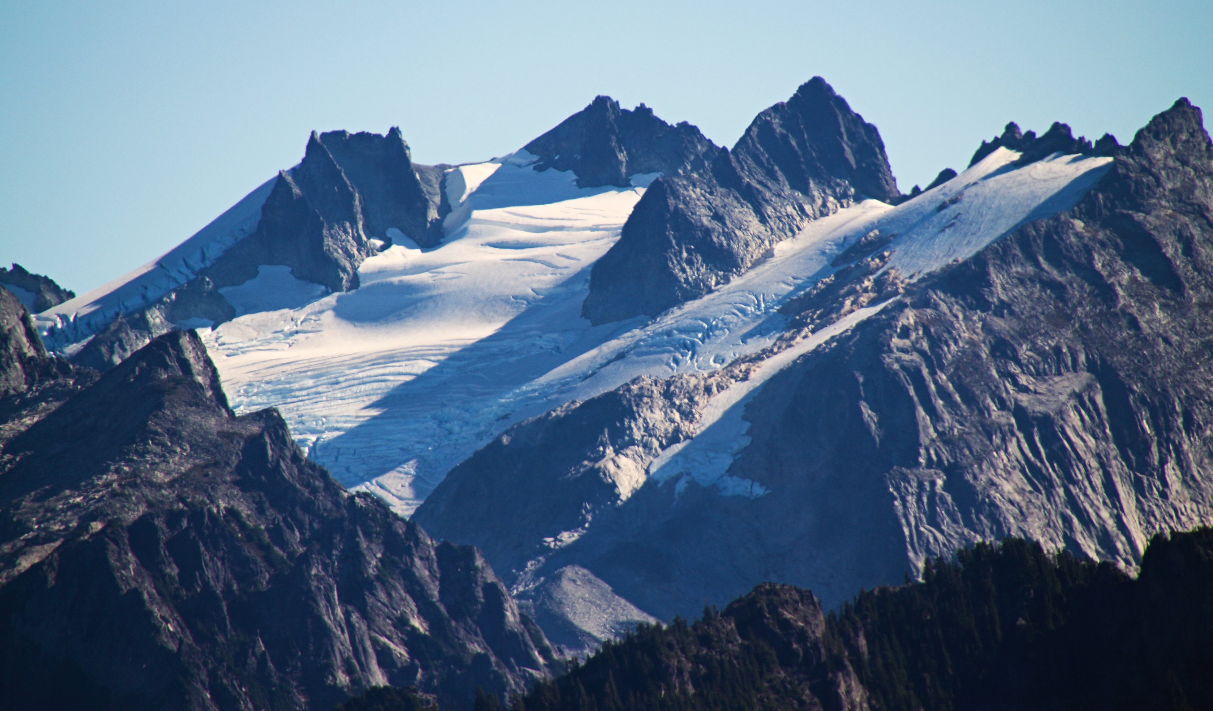 Mount Daniel and Lynch Glacier seen from north at Mt. Sawyer